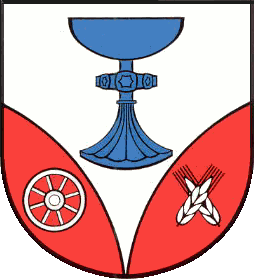 Coat of arms of the municipality Sandesneben in Schleswig-Holstein, Germany.